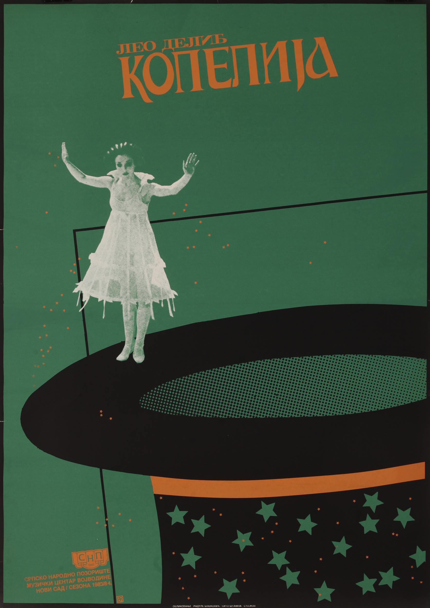 Coppélia, SNT, Novi Sad, 1983; Theater Poster Image of the Serbian National Theatre Srpski (latinica): Kopelija, SNP, Novi Sad, 1983; Pozorišni plakat Srpskog narodnog pozorišta Српски (ћирилица): Копелија, СНП, Нови Сад, 1983; Позоришни плакат Српског народног позоришта